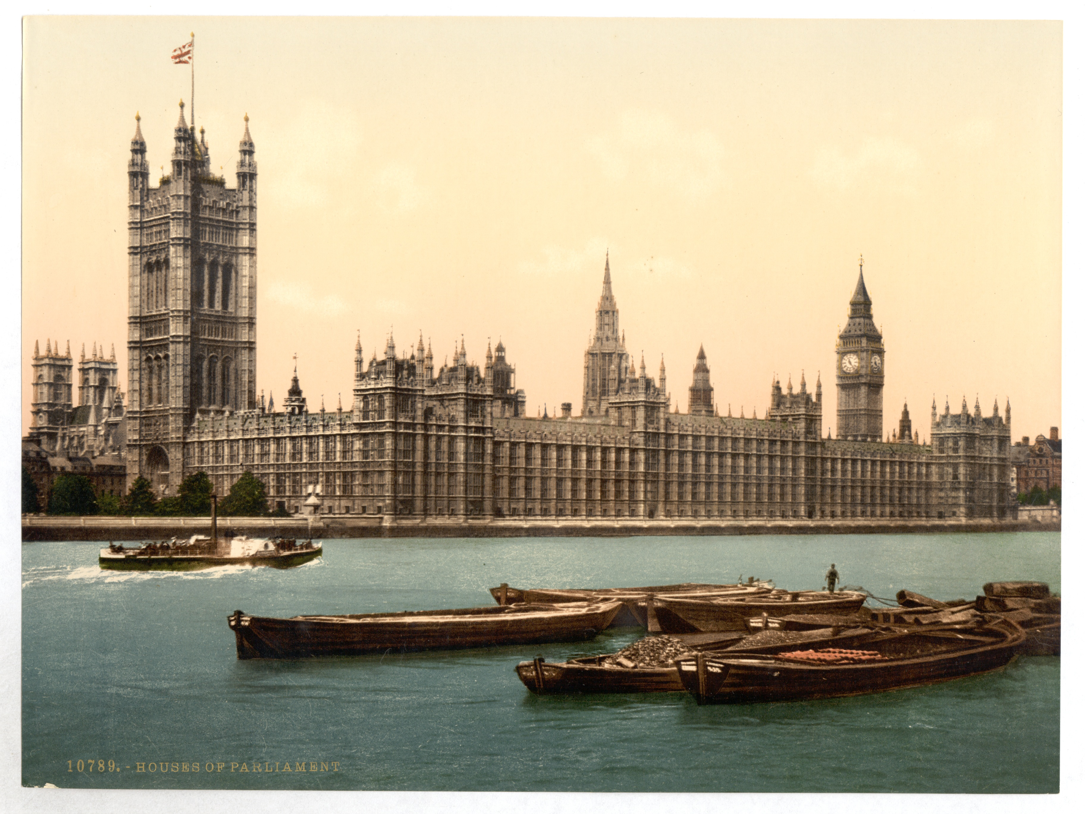 Forms part of: Views of the British Isles, in the Photochrom print collection.; More information about the Photochrom Print Collection is available at Print no. "10789".; Title from the Detroit Publishing Co., Catalogue J-foreign section, Detroit, Mich. : Detroit Publishing Company, 1905.; Exhibited: "Monet's London : Artists' reflections on the Thames" at the Museum of Fine Arts, St. Petersburg, Florida, and other venues, 2005-2006.